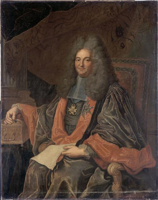 Joseph-Jean-Baptiste Fleuriau d'Armenonville, Garde des Sceaux en 1722, Grand Trésorier du Roi en 1724 (1661-1728)